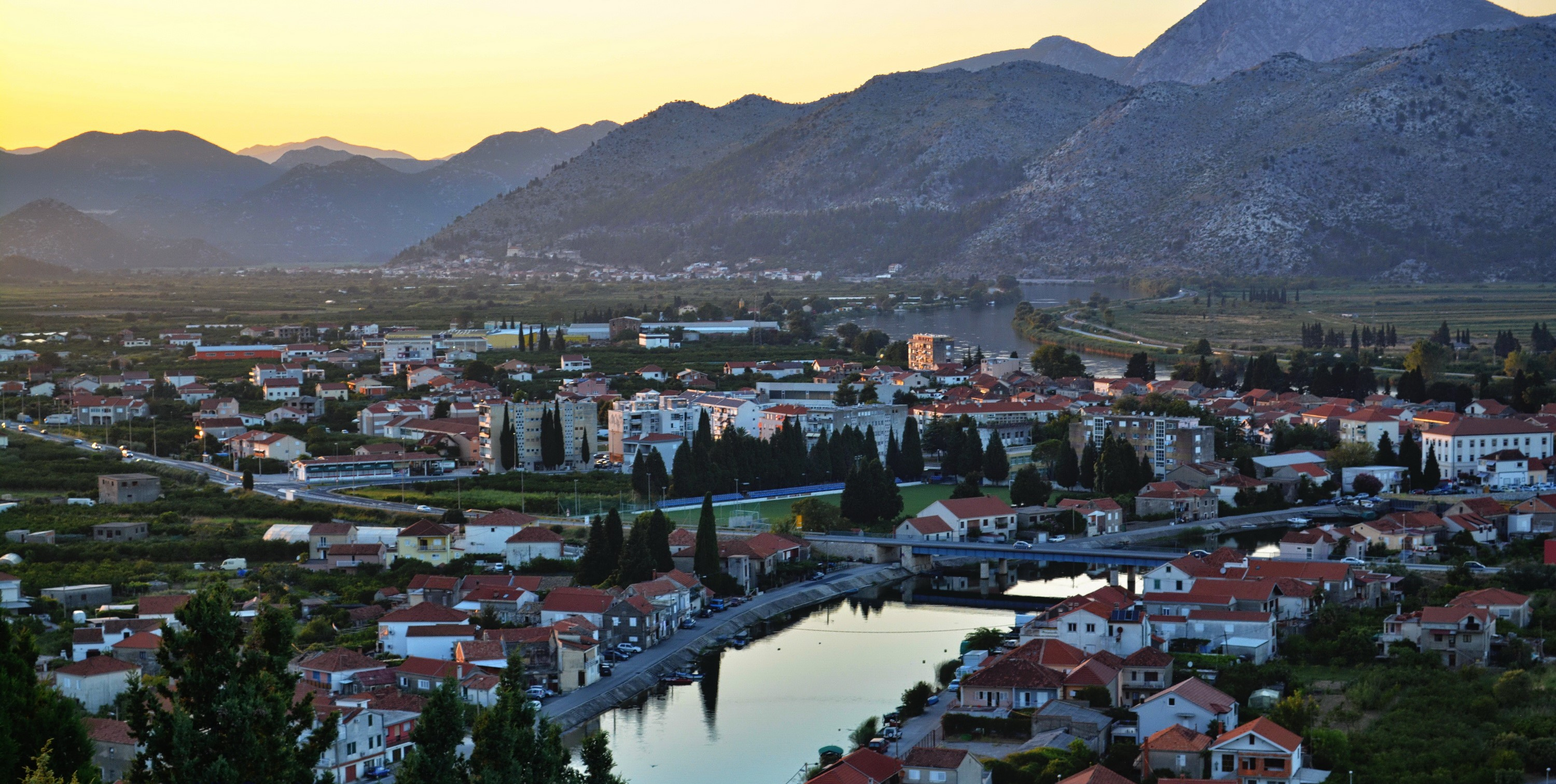 Panorama of Opuzen